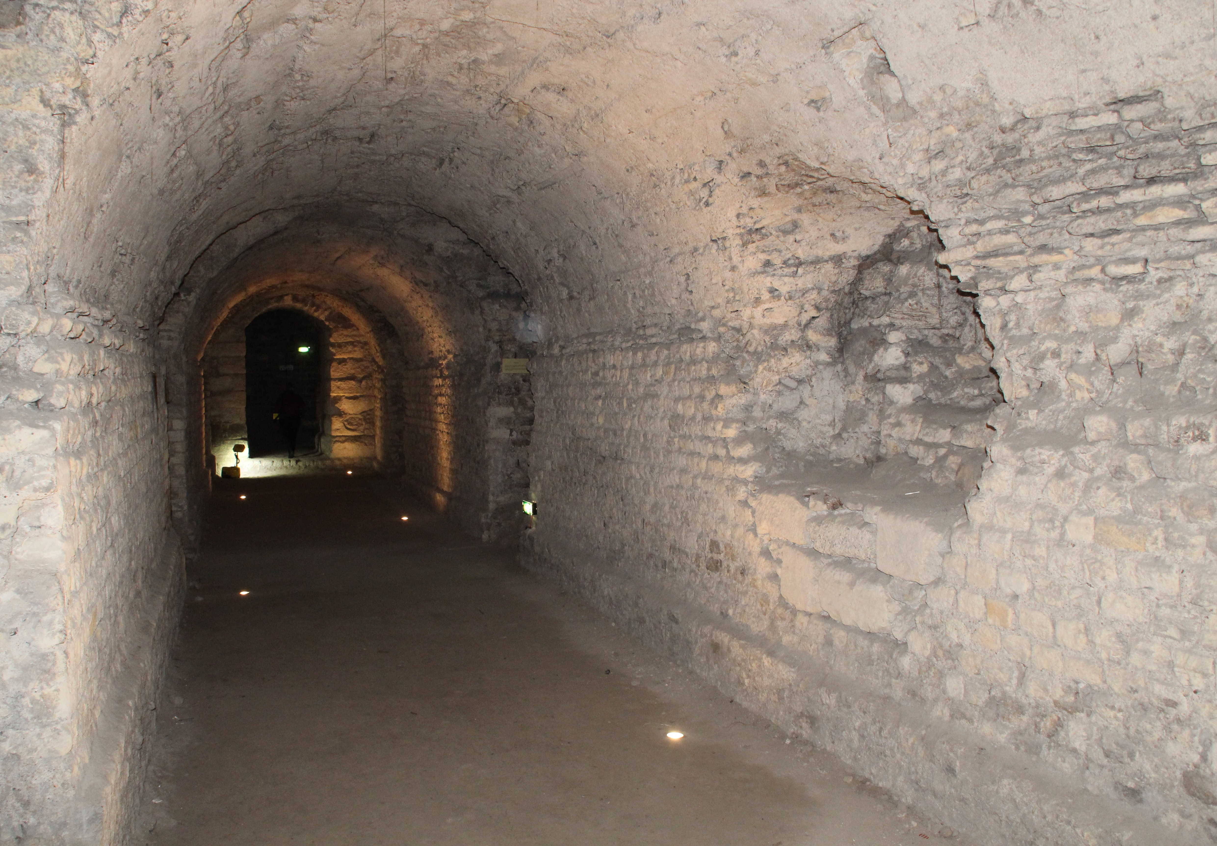 Basements of the Thermes de Cluny in Paris, France.